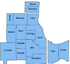 Chicagoland map